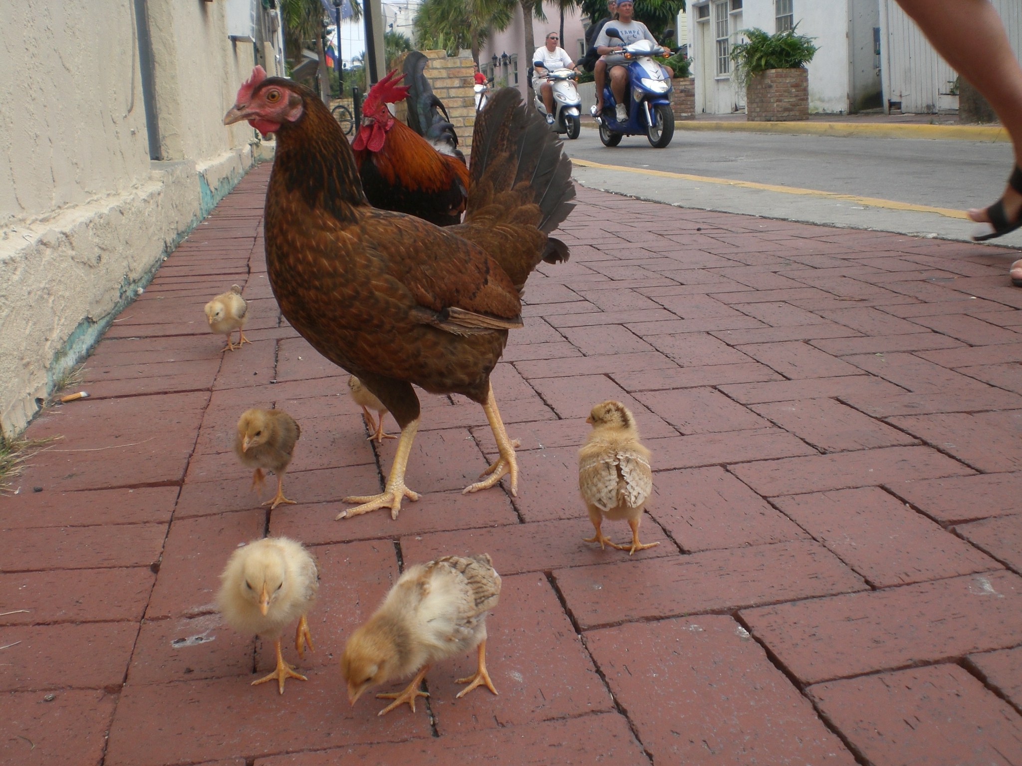 Free roaming chicken family in Bahama Village in downtown Key West, Florida on 2/10/2007.